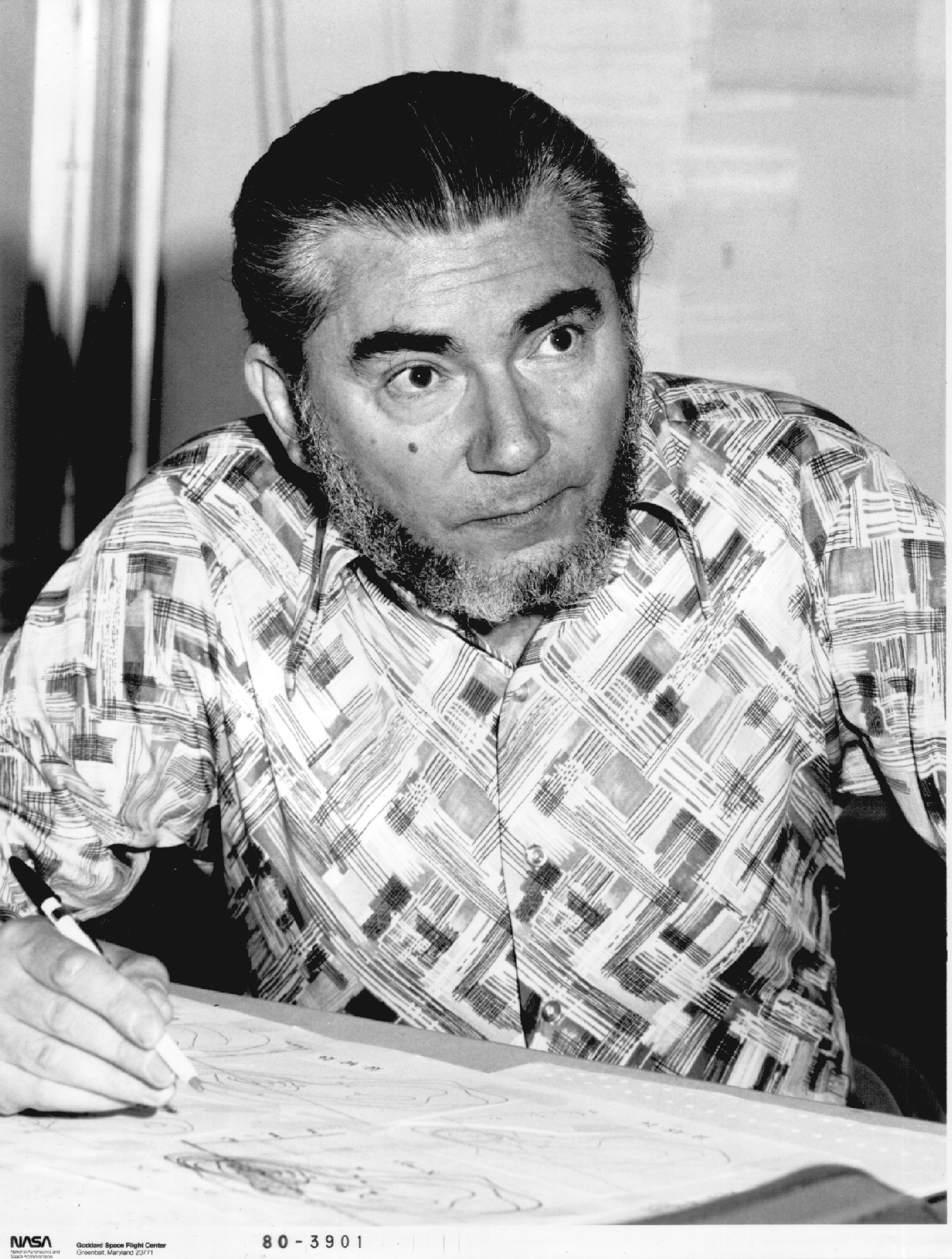 Zdenek Švestka (HXIS, cz), for decades the world's leading expert on solar flares